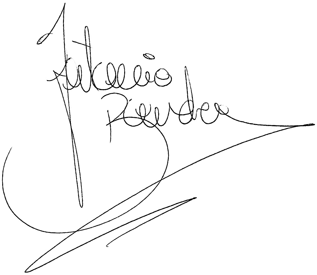 Signature of Spanish actor Antonio Banderas